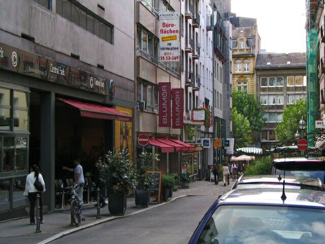 Kaiserhofstrasse in Frankfurt Germany from the side of Hochstrasse